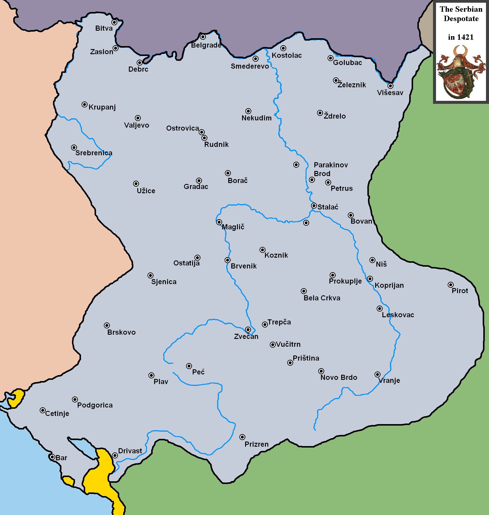 Source: Andrija Veselinović, Država srpskih despota, Belgrade 2006 Istorijski Atlas (Zavod za udžbenike i nastavna sredstva), Belgrade 2004